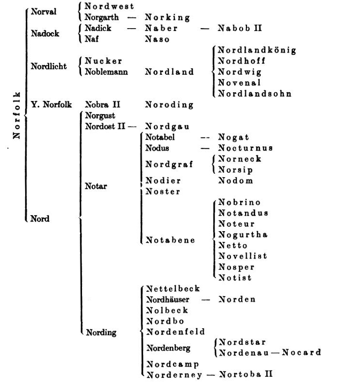 Bloodline of Hannoverian Norfolk